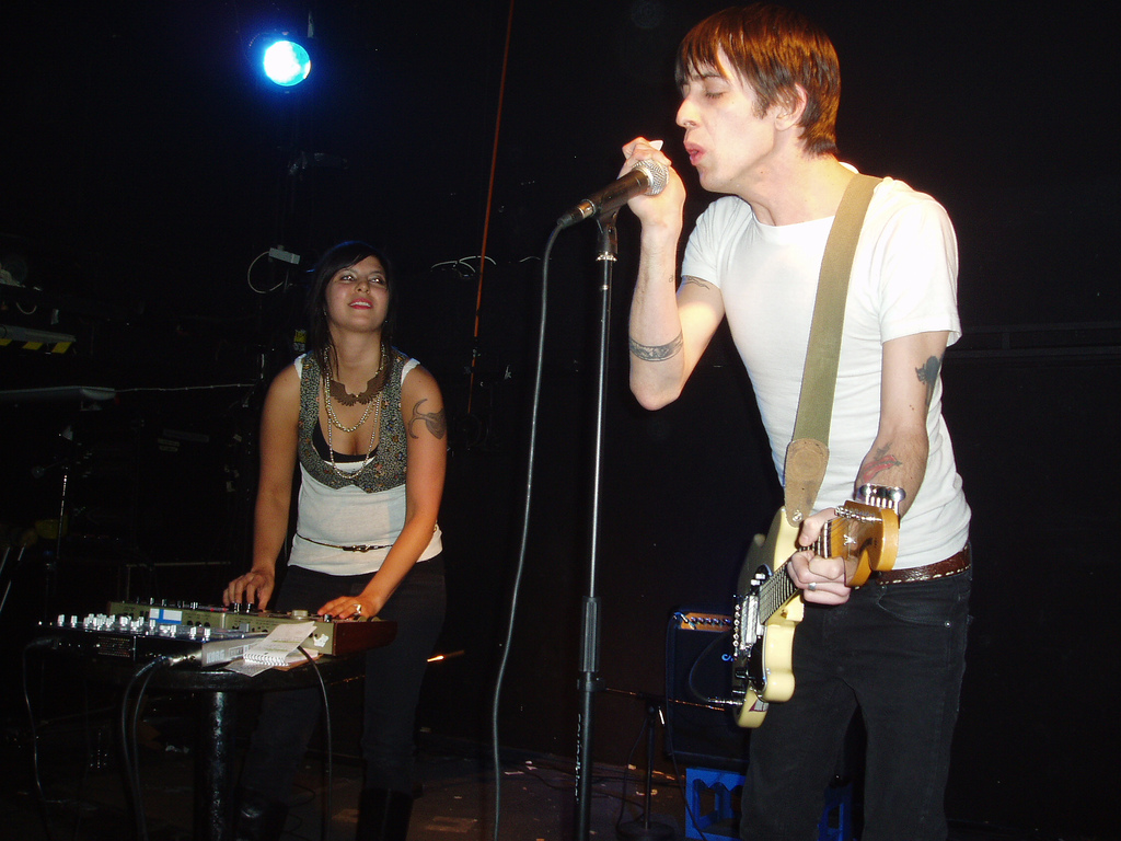 Dan Boeckner and Alexei Perry as Handsome Furs in Helsinki, Finland, on March 11, 2007.